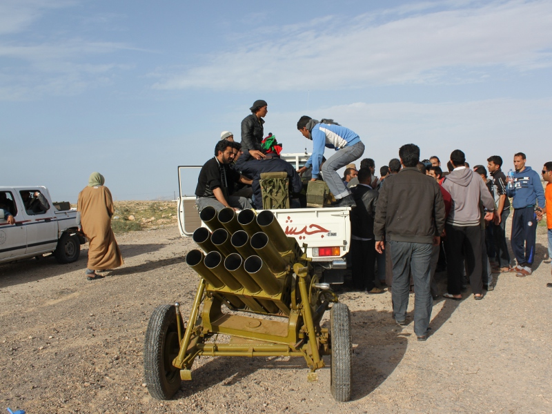 Rebels have acquired a vast array of weaponry, both handed over and confiscated from the military. It includes AK-47 and other types of assault rifles, grenades, surface-to-air missiles, rocket-propelled-grenades, Grad and other mobile-style rocket launchers, mortars, and M40 recoilless rifles.